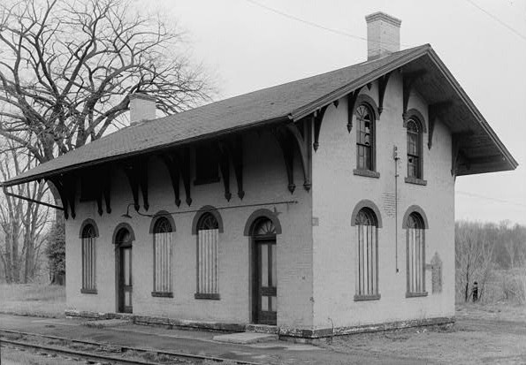 Martisco Station, Marcellus & Otisco Streets, Martisco (Onondaga County, New York) cropped This file comes from the Historic American Buildings Survey (HABS), Historic American Engineering Record (HAER) or Historic American Landscapes Survey (HALS). These are programs of the National Park Service established for the purpose of documenting historic places. Records consist of measured drawings, archival photographs, and written reports. When reusing please credit: Library of Congress, Prints & Photographs Division, NY,34-MART,1-2 This tag does not indicate the copyright status of the attached work. A normal copyright tag is still required. See Commons:Licensing for more information. English | +/− This work is in the public domain in the United States because it is a work prepared by an officer or employee of the United States Government as part of that person’s official duties under the terms of Title 17, Chapter 1, Section 105 of the US Code. See Copyright. Note: This only applies to original works of the Federal Government and not to the work of any individual U.S. state, territory, commonwealth, county, municipality, or any other subdivision. This template also does not apply to postage stamp designs published by the United States Postal Service since 1978. (See 206.02(b) of Compendium II: Copyright Office Practices). It also does not apply to certain US coins; see The US Mint Terms of Use. This file has been identified as being free of known restrictions under copyright law, including all related and neighboring rights. Object location 43° 1′ 2.0″ N, 76° 20′ 9.0″ W This and other images at their locations on: Google Maps - Google Earth - OpenStreetMap - Proximityrama(Info)